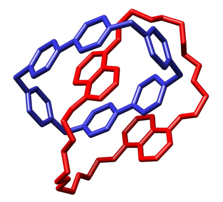 This is a picture generated from crystal structure data reported by Peter R. Ashton, Christopher L. Brown, Ewan J. T. Chrystal, Timothy T. Goodnow, Angel E. Kaifer, Keith P. Parry, Douglas Philp, Alexandra M. Z. Slawin, Neil Spencer, J. Fraser Stoddart and David J. Williams Chemical Communications, 1991, 634 - 639. It shows a catenane with a cyclobis(paraquat-p-phenylene) macrocyle. It was made by myself and is free to be used by all.